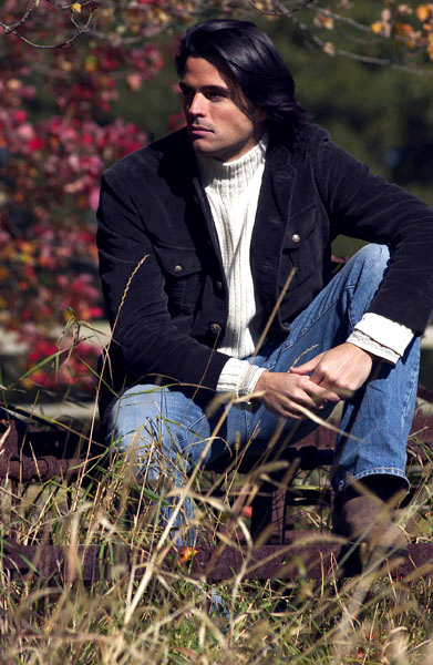 Original: "This is a test shot for when I was trying to build up my modeling portfolio."